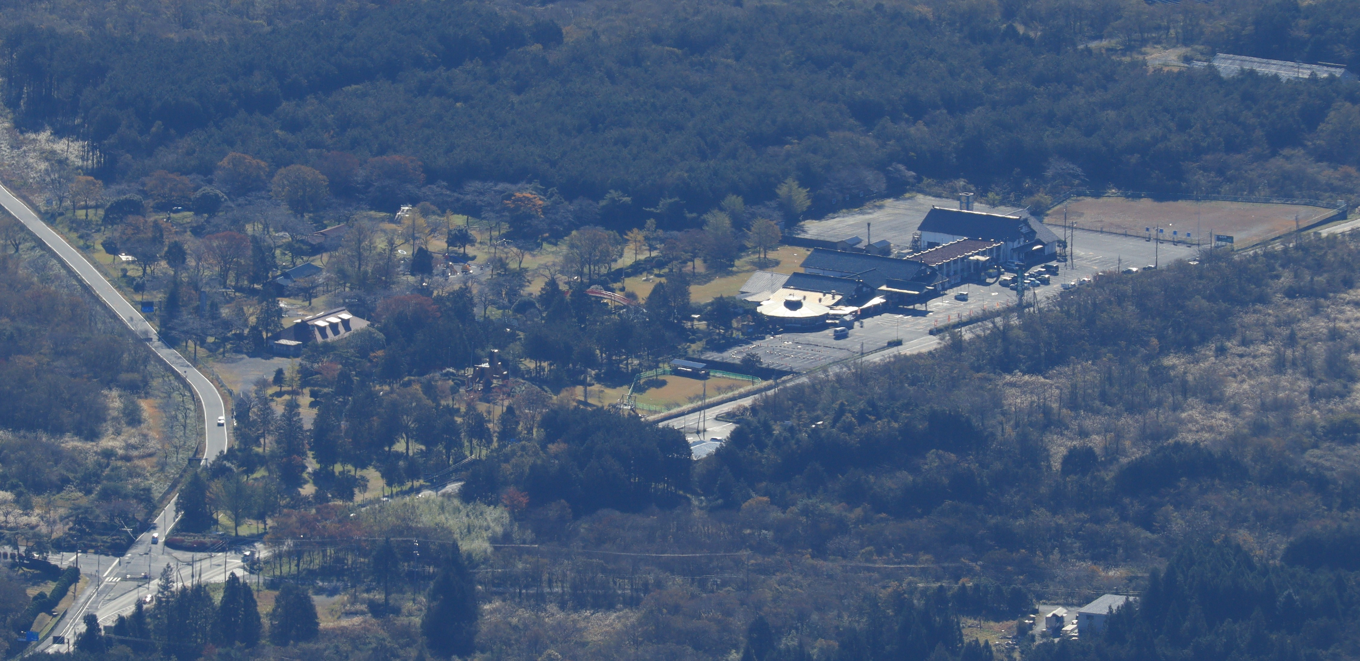 Drive-in Mochiya and Route 139 seen from Mount Kenashi (Tenshi Mountains) in Fujinomiya, Shizuoka Prefecture, Japan.